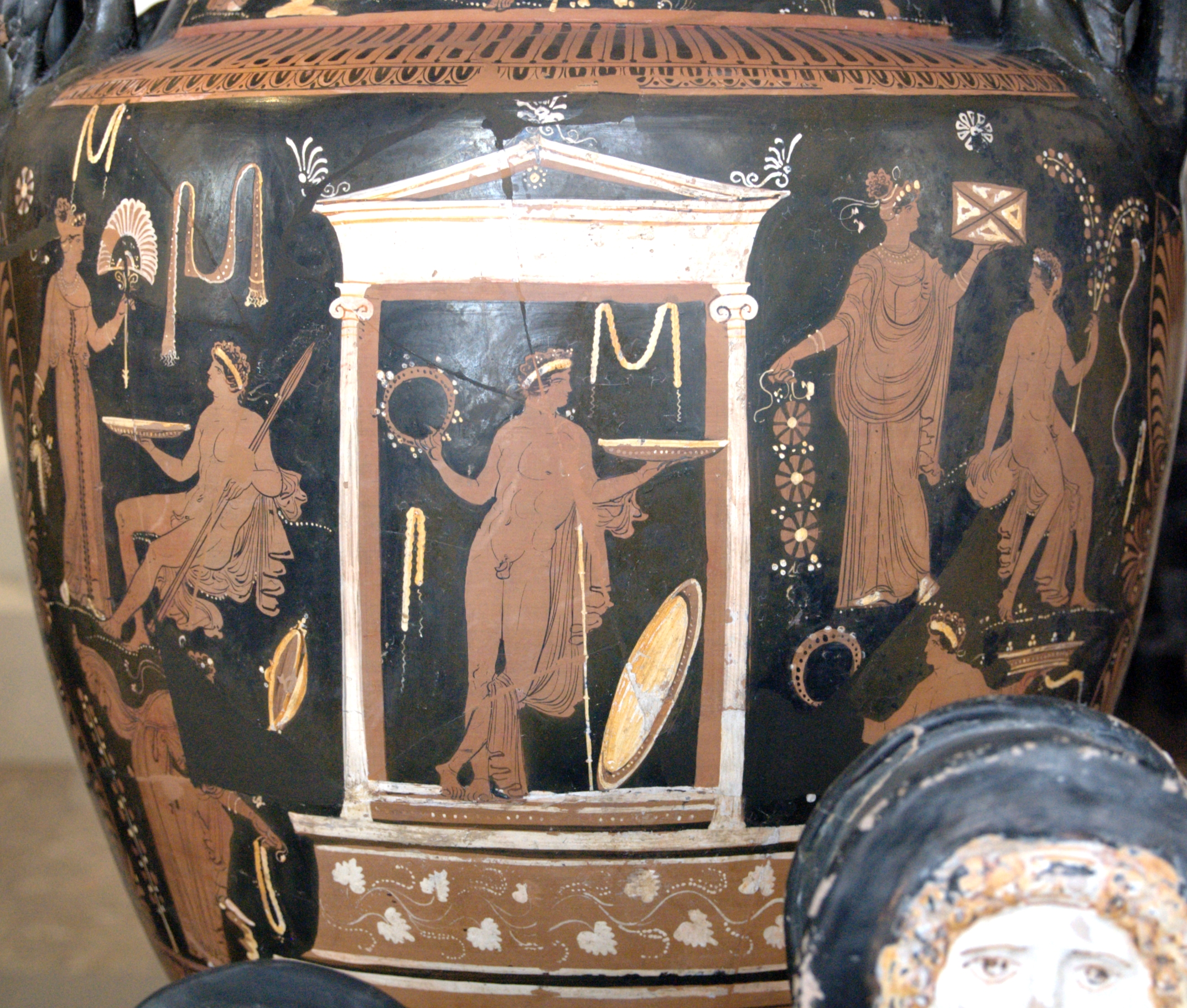 Naiskos. Side B of the “Phrixos krater”, an Apulian red-figure volute-krater, ca. 340 BC.